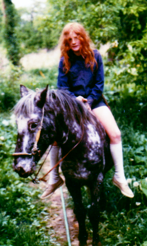 My brother's pony, but he didn't want to ride him, so I rode all 3 of the POAs ,we had on the farm. I was too young to have fear, so I rode, usually bareback, out in big pastures. I'd set up jumps. If they took my bridle or halter away to ground me--I'd simply put a piece of binder-twine around my pony's nose (make-shift hackamore). It's your body language the horse responds to, anyway. Perhaps not so bright to be out galloping in huge pastures with no one home, but myself (age 10-12)--but it was what I lived for and had asked for since the age of 2. Something Divined was up with that. I never got injured or thrown from any horse I've ridden, including a young, green Arabian filly I trained, when I was near 30 years old. The seat I earned as a kid, stays with me. I'm by no means a perfect rider, but it is the one gift/desire I've always had. Riding is an amazing workout-;though, I didn't realize it at that age. For me, it was just fun. I'd go out, early, early in the morning and slide from one horse to another for entertainment, since no one would wake up and play so early. The horses trusted me. When I had spent an hour or so sliding from one horse to another, I went and dragged out a 70 lb. bale of hay and launched 3 slices into different places, so they could all eat. We didn't have cable. We had 70 lb. bales of hay. Fields to bale up and one riding ring I spent 3 hours/day training for the next show. Those were good days.